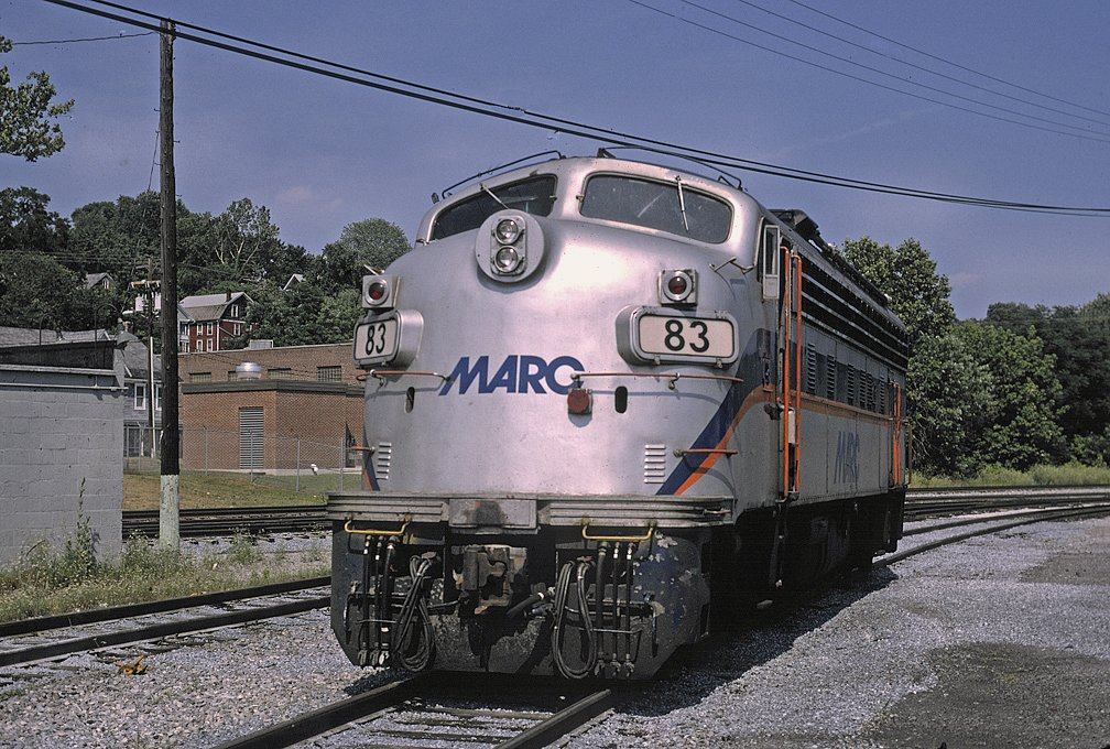 Former B&O F7 #369 rebuilt by M-K as an F9PHA . Seen at Brunswick, MD, June 1994